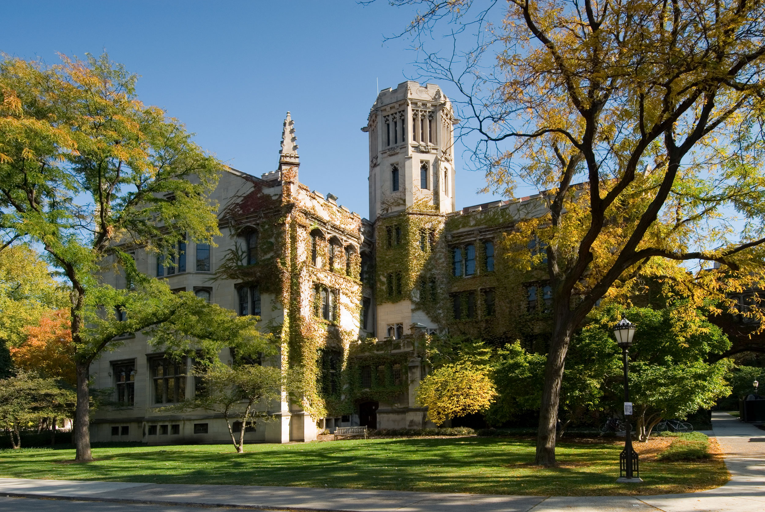 Julius Rosenwald Hall at the Hyde Park campus of the University of Chicago.Photo by Chuck Szmurlo taken October 28, 2007 with a Nikon D200 and a Nikon 12-24 f4 lens.